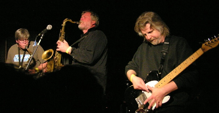 Borbetomagus